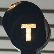 Tram sign in Germany - A 1: Türen schließen